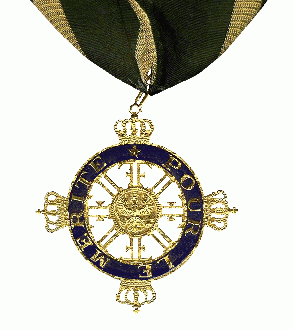 Orden Pour le Mérite für Wissenschaften und Künste Pour le Mérite in de Vredesklasse 1842 - present